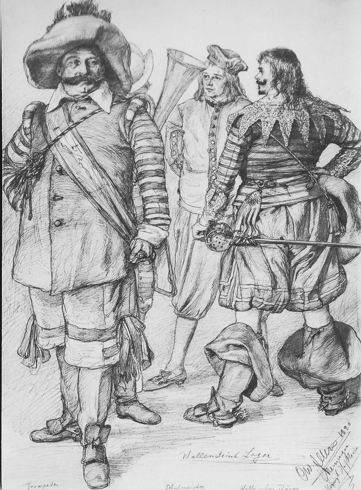 Scene from Wallensteins Lager, Hoftheater Meiningen, Germany.